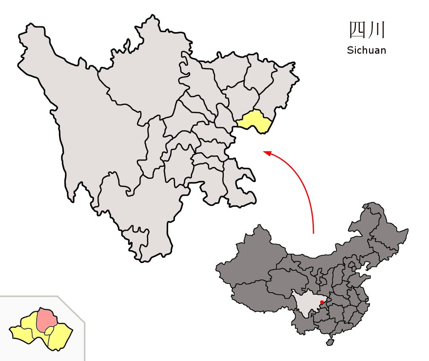 Location of Guang'an District (pink) and Guang'an Prefecture (yellow) within Sichuan province of China Map drawn in october 2007 using various sources, mainly : Sichuan province administrative regions GIS data: 1:1M, County level, 1990 Sichuan Counties map from